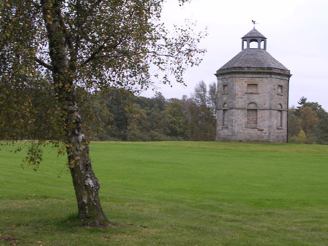 Dovecot on Dougalston Golf Course. Hexagonal in shape, this dovecote probably dates from the middle or latter half of the eighteenth century